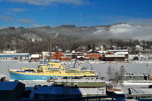 View of Hancock from Houghton across Portage Lake canal